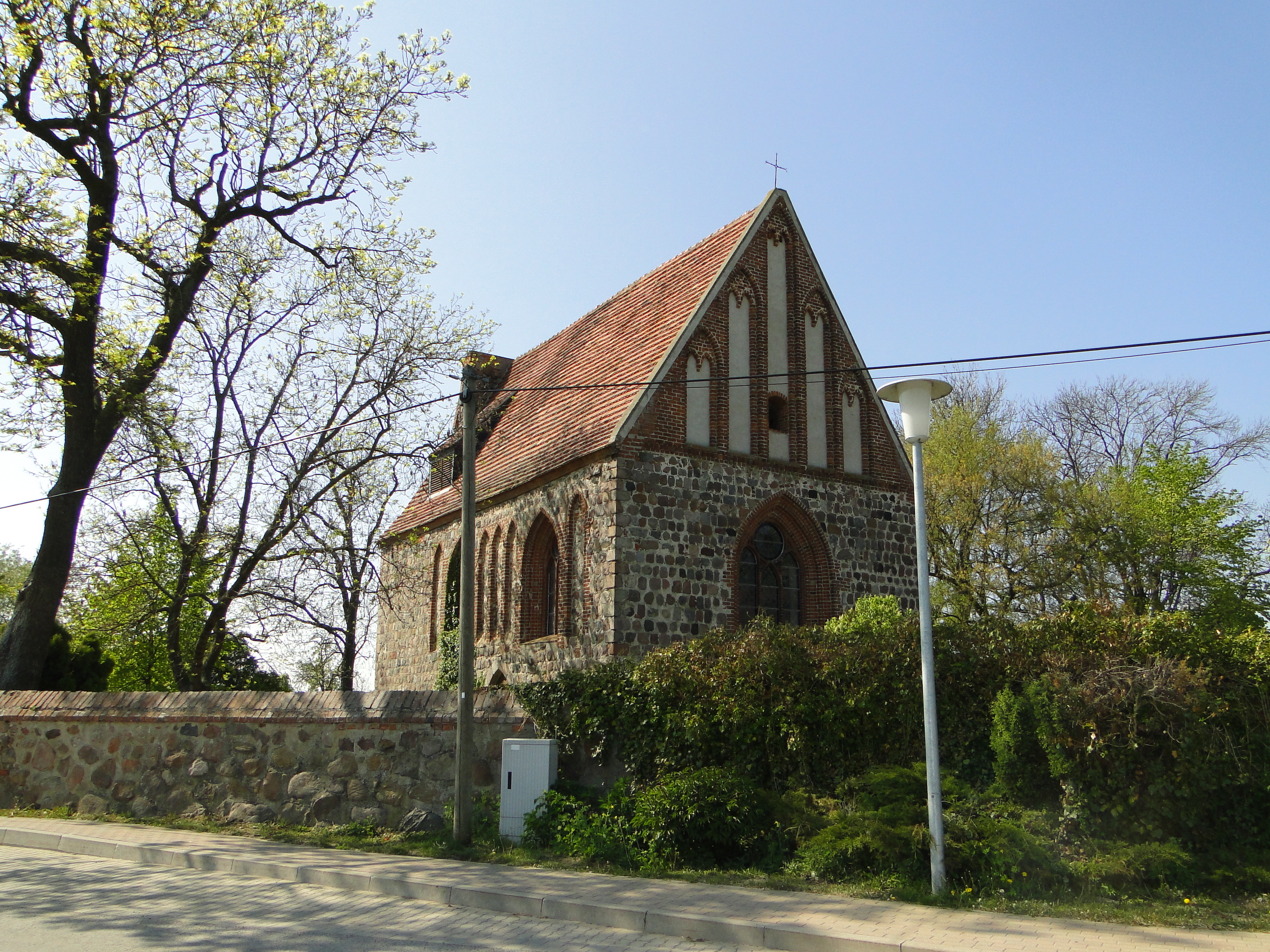 Church in Lindow, district Mecklenburg-Strelitz, Mecklenburg-Vorpommern, Germany